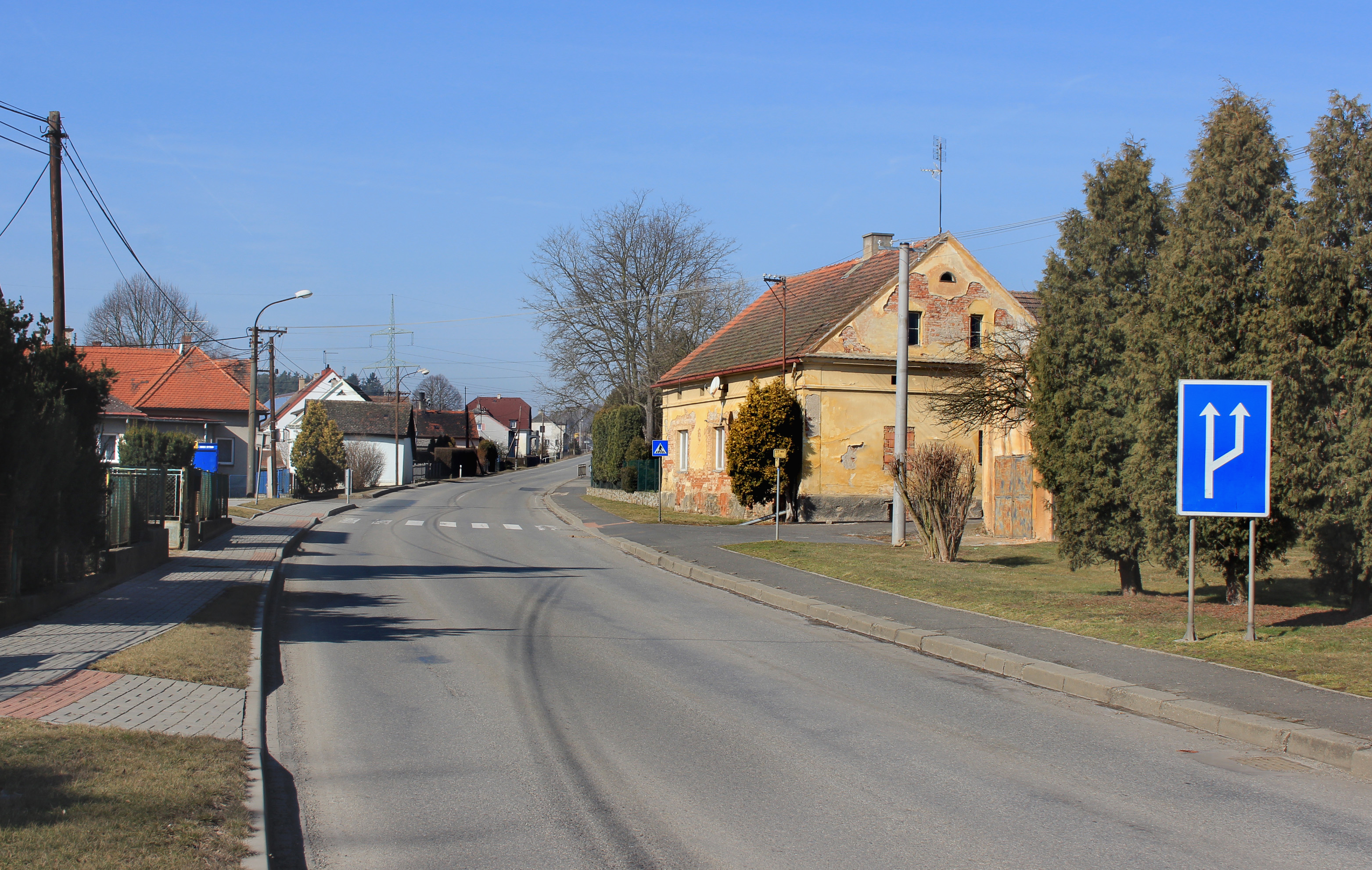 Road No. 605 in Sytno, Czech Republic.